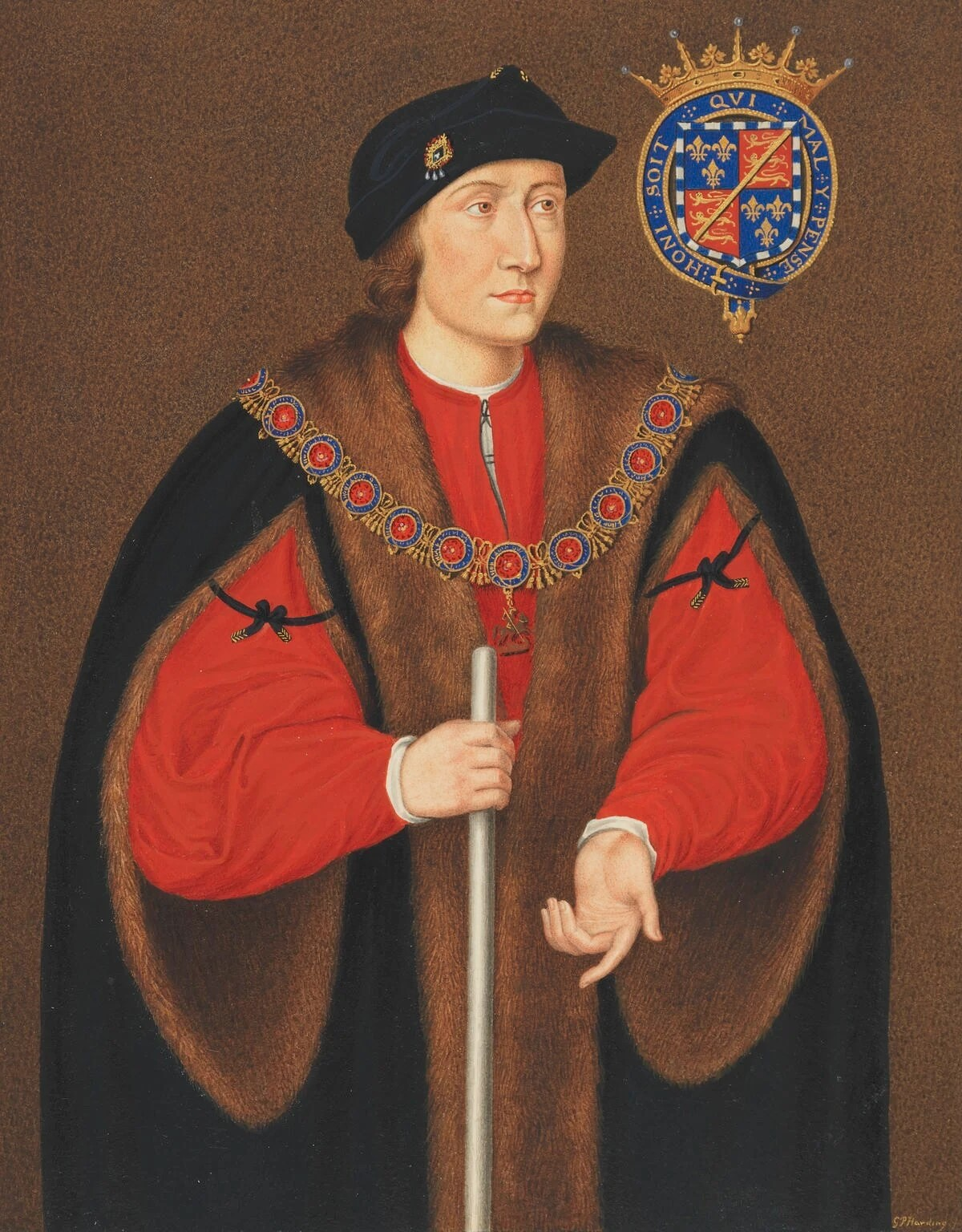 Portrait of Charles Somerset, 1st Earl of Worcester (1460s-1526)